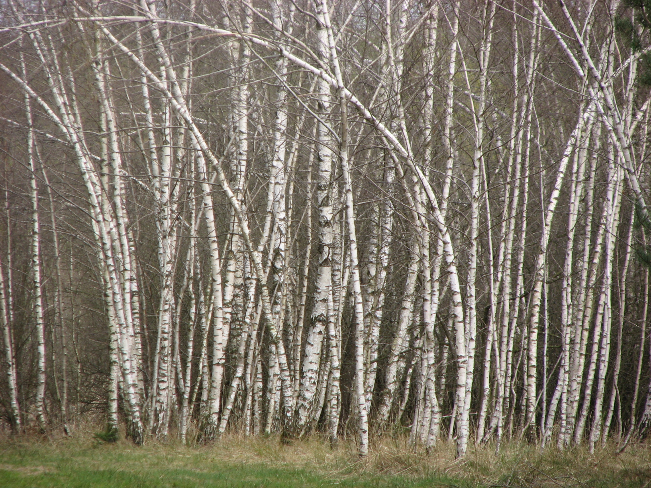 Birches in ecologically restorated peat area in Bürmoos